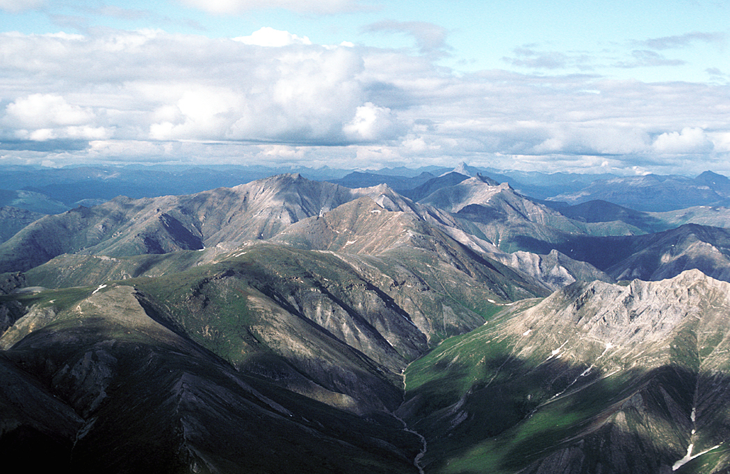 Gates of the Arctic in Summer - Aerial View